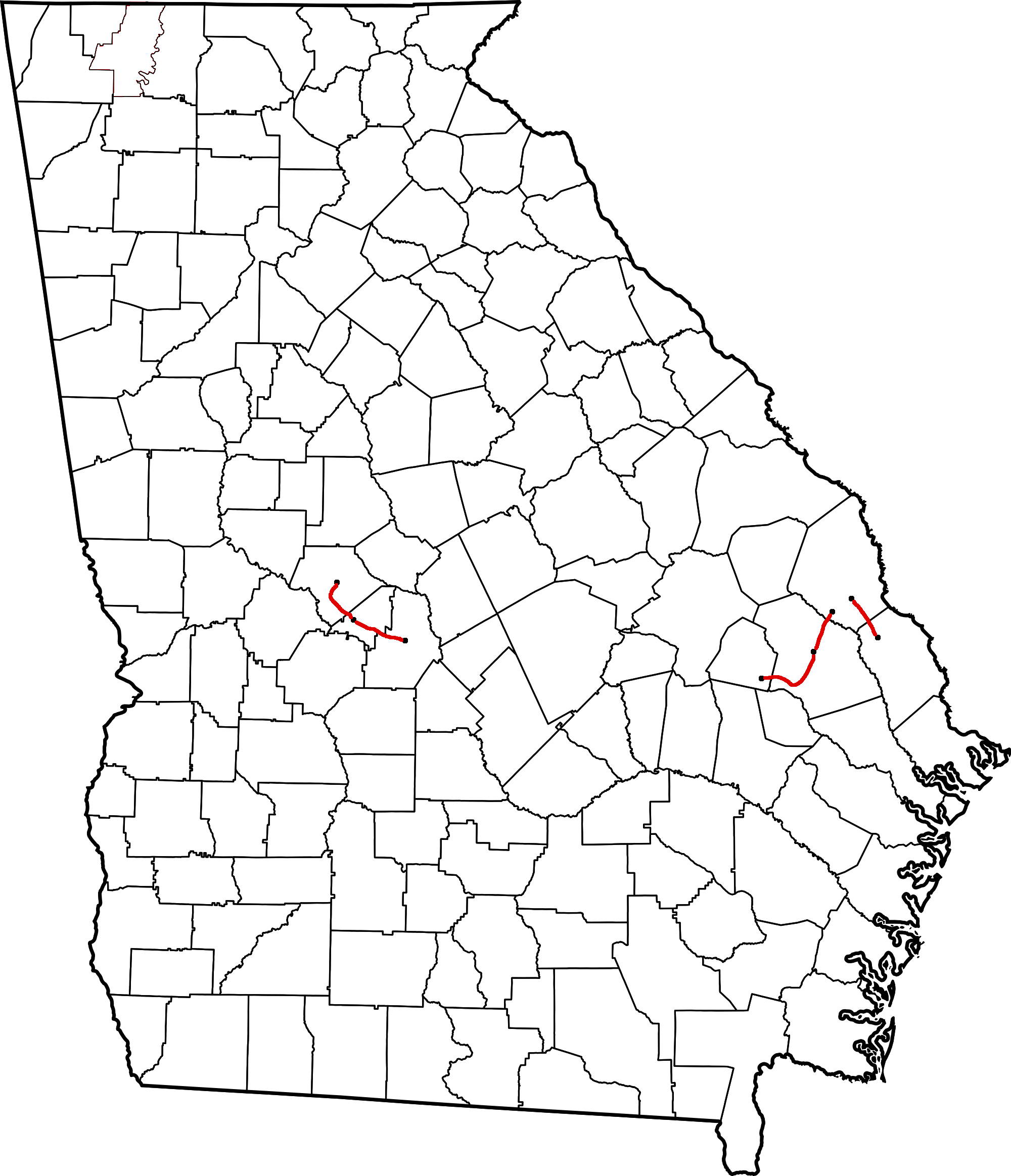 Map of Georgia (U.S. state) showing the routes of the Georgia Midland Railroad